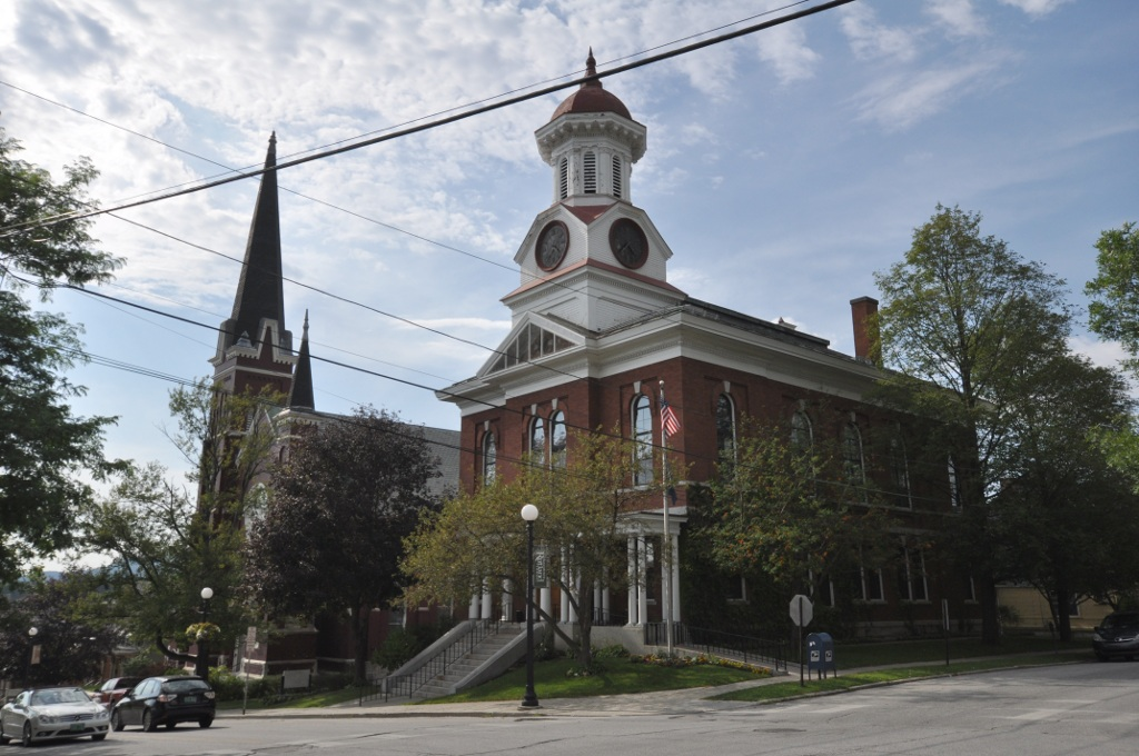 Rutland Courthouse Historic District, Rutland, Vermont. Old courthouse on right, Baptist church on left.